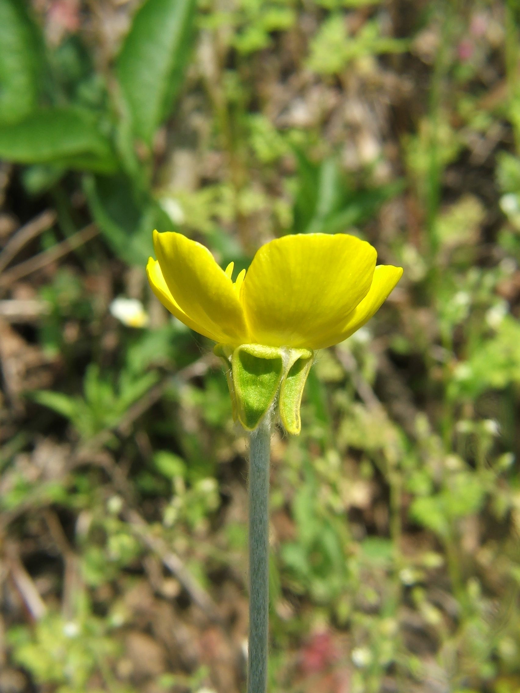 Ranunculus illyricus